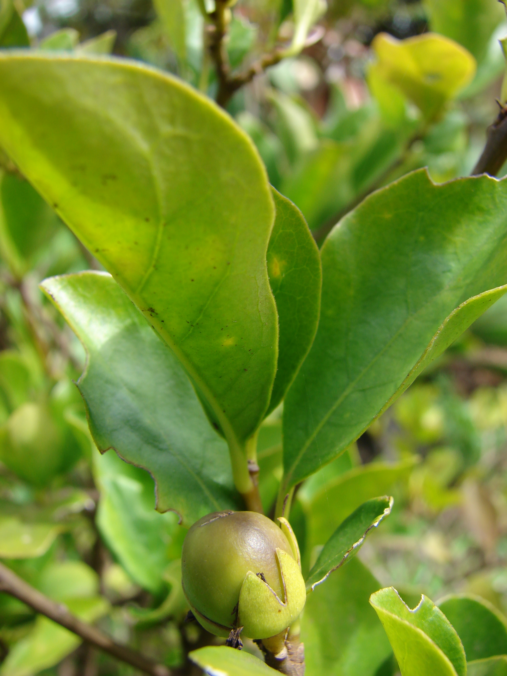 Brunfelsia australis (fruit). Location: Maui, Sun Yat Sen Park Keokea